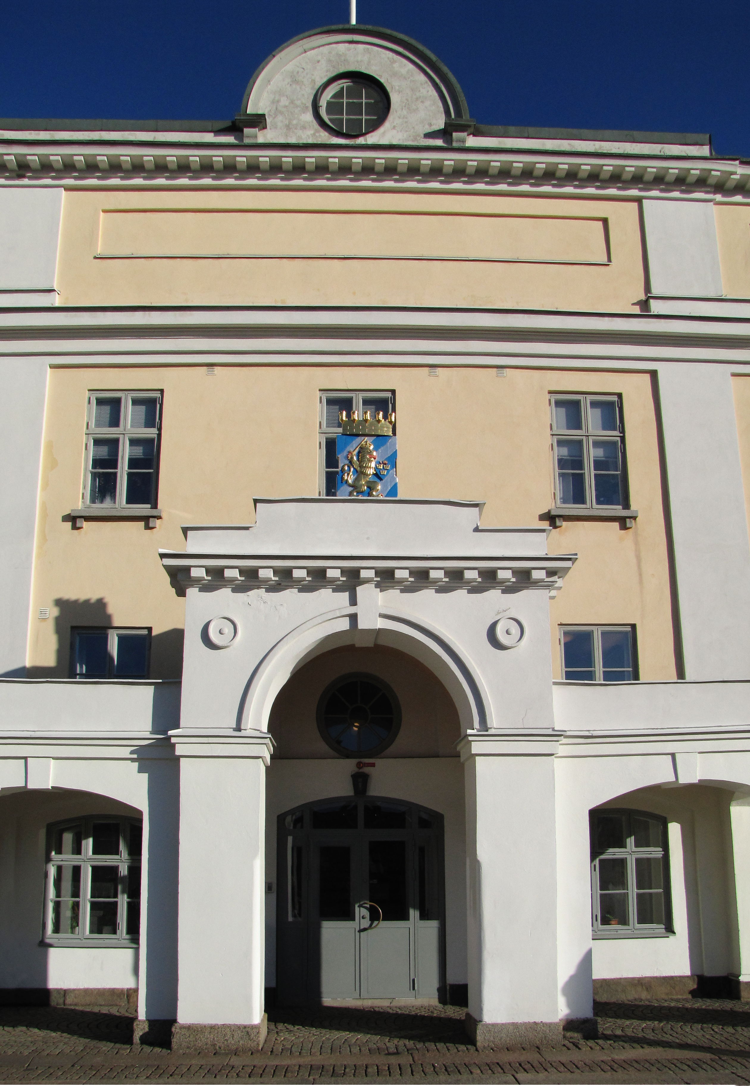 "Stadshuset", the city hall of Göteborg at Gustav Adolfs torg. The coat of arms of Göteborg is over the entrance.